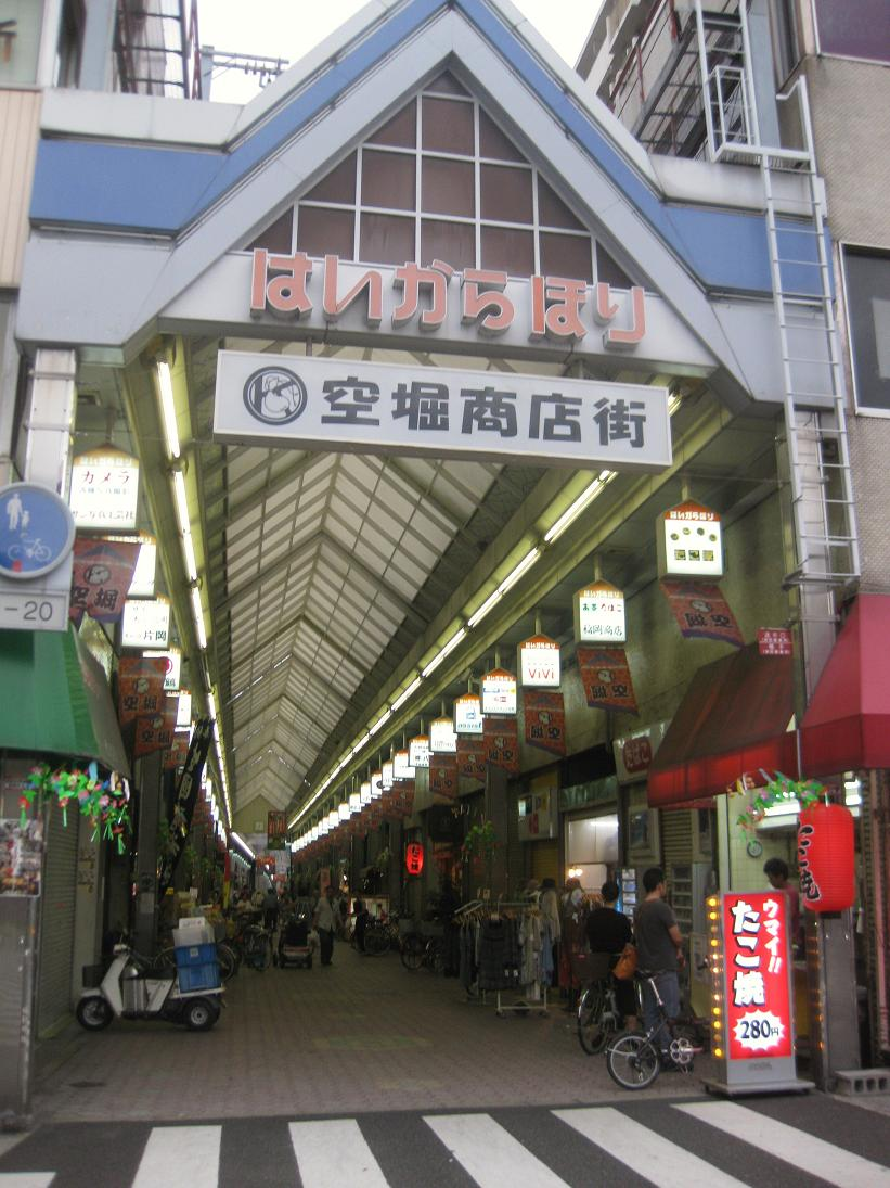 Karahori shopping street, Chuo-ku, Osaka